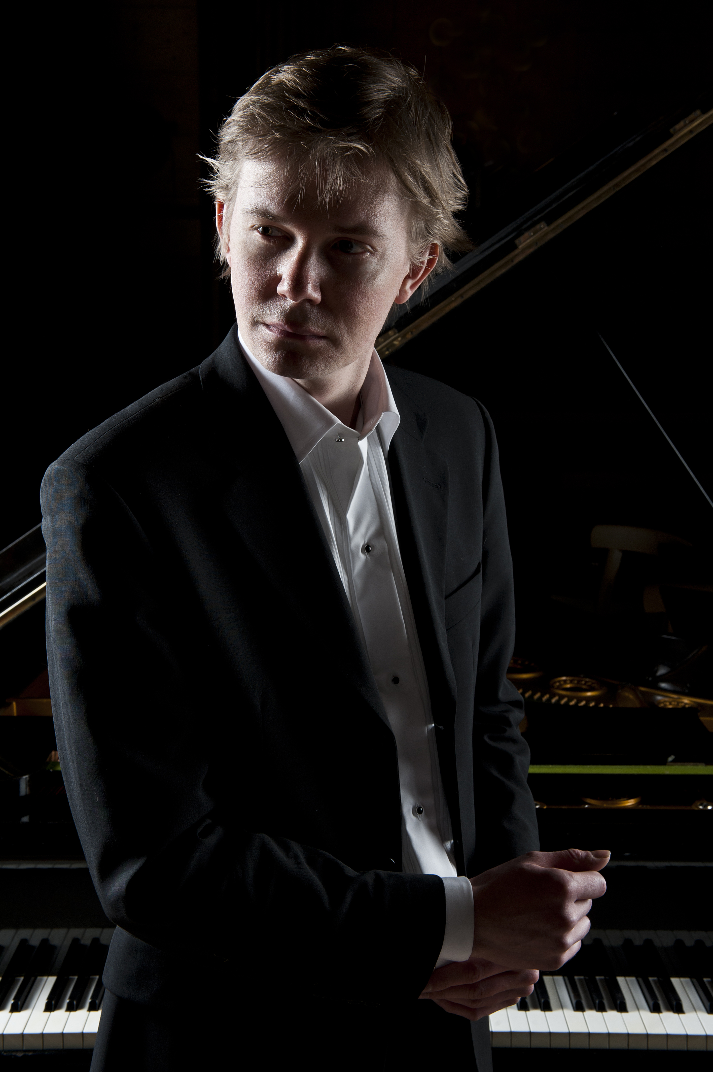 Frederik Magle - In front of a piano (Pianist). December 2012.